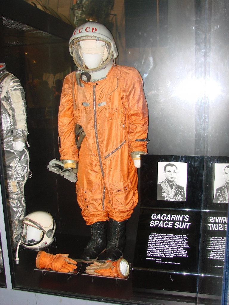 Yuri Gagarin's space suit on display at the Smithsonian National Air and Space Museum. It was worn during training exercises.